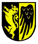 Coat of arms of Bonlanden_auf_den_Fildern in Filderstadt